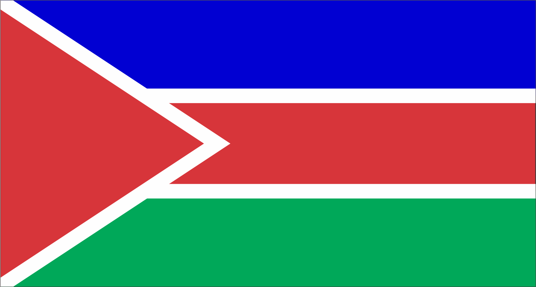 Flag of the town of Lopez, Santa Fe. Recreated by Juan Blas Tschopp on Corel X7